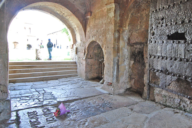 Gelati Monastery tomb David IV of Georgia